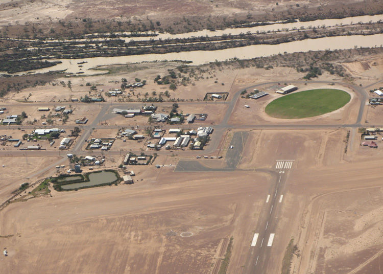 Aerial view of Birdsville